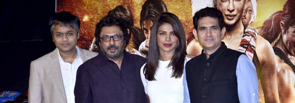 Trailer launch of Mary Kom. People pictured include Sanjay Leela Bhansali and Priyanka Chopra